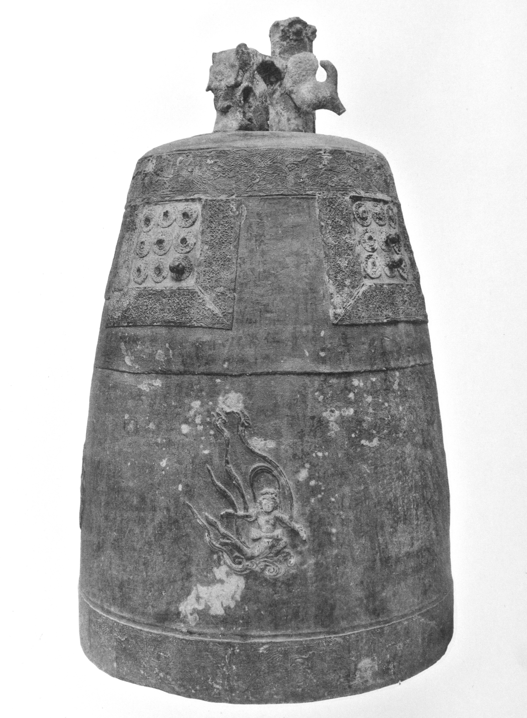 Jōgū Jinja, Fukui, Japan